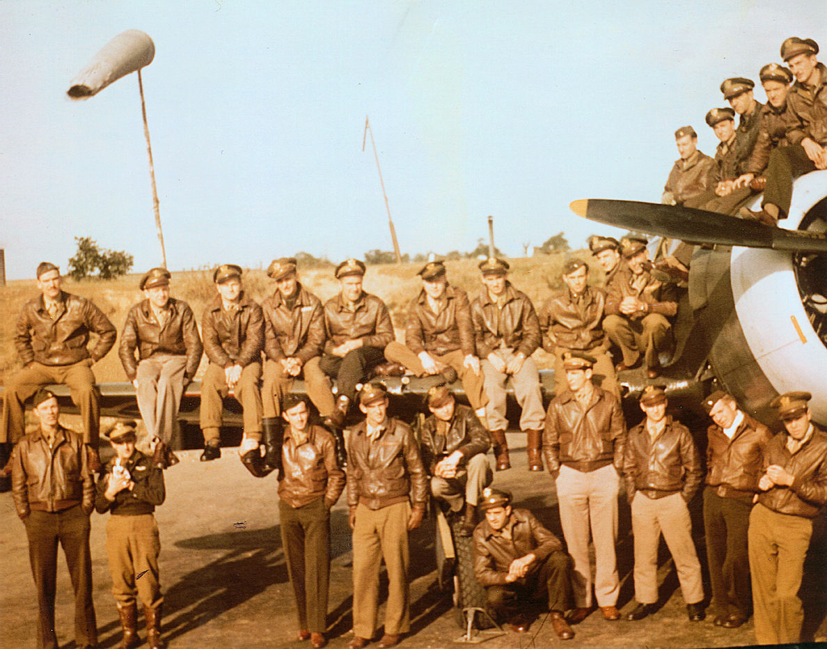 A large group of 4th Fighter Group pilots sitting on or standing in front of a P-47 Thunderbolt at Debden air base. The 4th Fighter Group flew P-47 Thunderbolts on missions between March 1943 and February 1944. Standing L to R: Selden Edner, Earl Carlow, Clemens Fiedler, Leon Blanding, Frank Bayles, Charles Anderson, Bernard McGrattan, James Happel, Paul Ellington and James W, Dye. On the wing of the aircraft L to R: Don Young, Kenneth G. Smith, Don Ross, ??, Cecil E. Manning, Robert Patterson, James H. Brandenburg, ?M. Thorpe?, Albert Schlegel and George Carpenter. On the fuselage L to R: Roy Evans, Fonzo "Snuffy" Smith, Cadman V. Padgett, ?Ernest Beatie?, James Steel and ??.